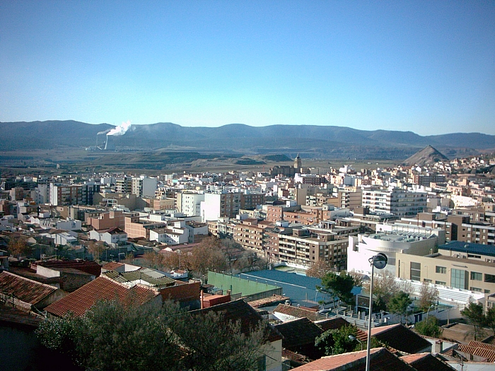 A work release by Francisco Javier Martin Lopez Puertollano, 19 December 2005, Cities of Spain, donated to Wikipedia